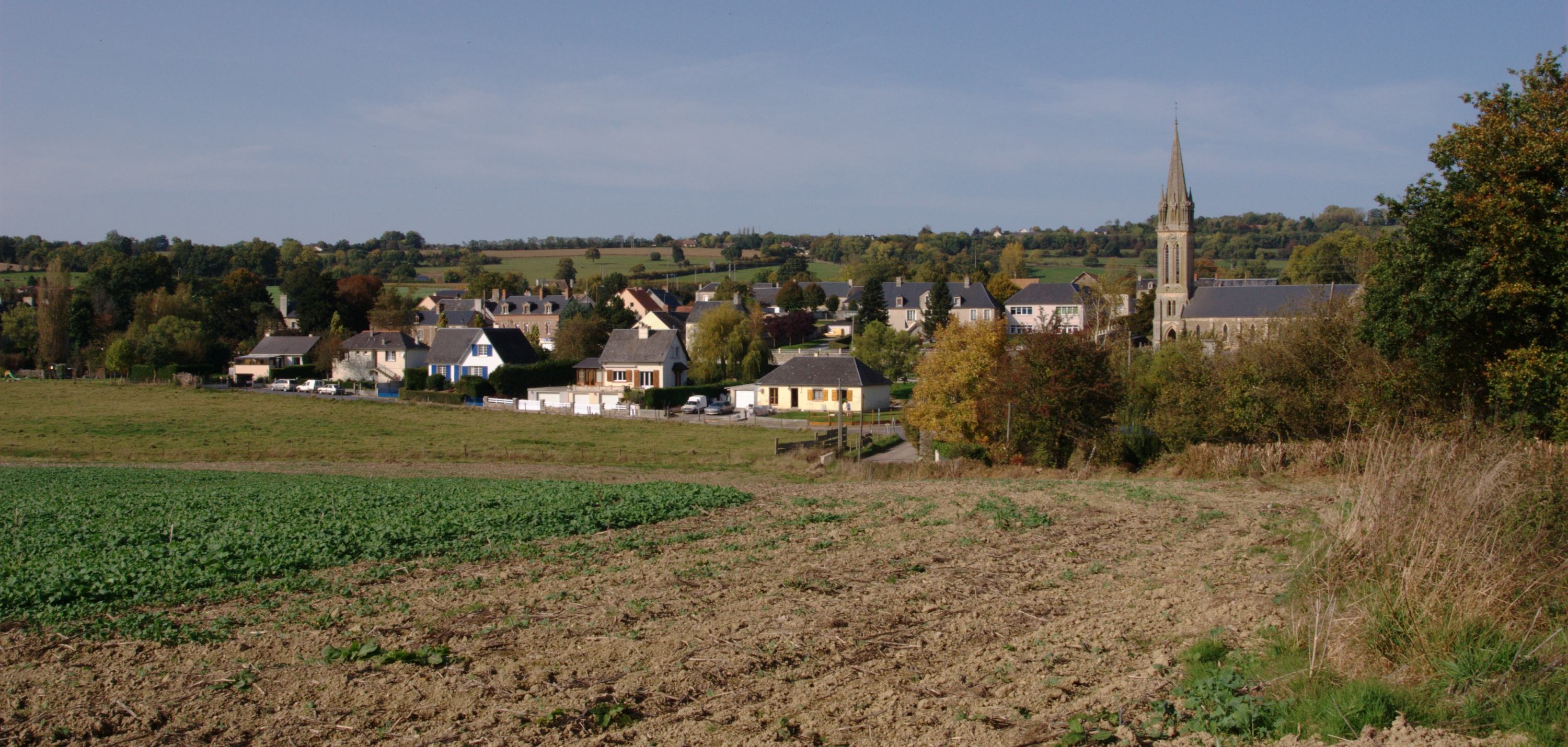 The Epinay-sur-Odon village in Calvados, French.